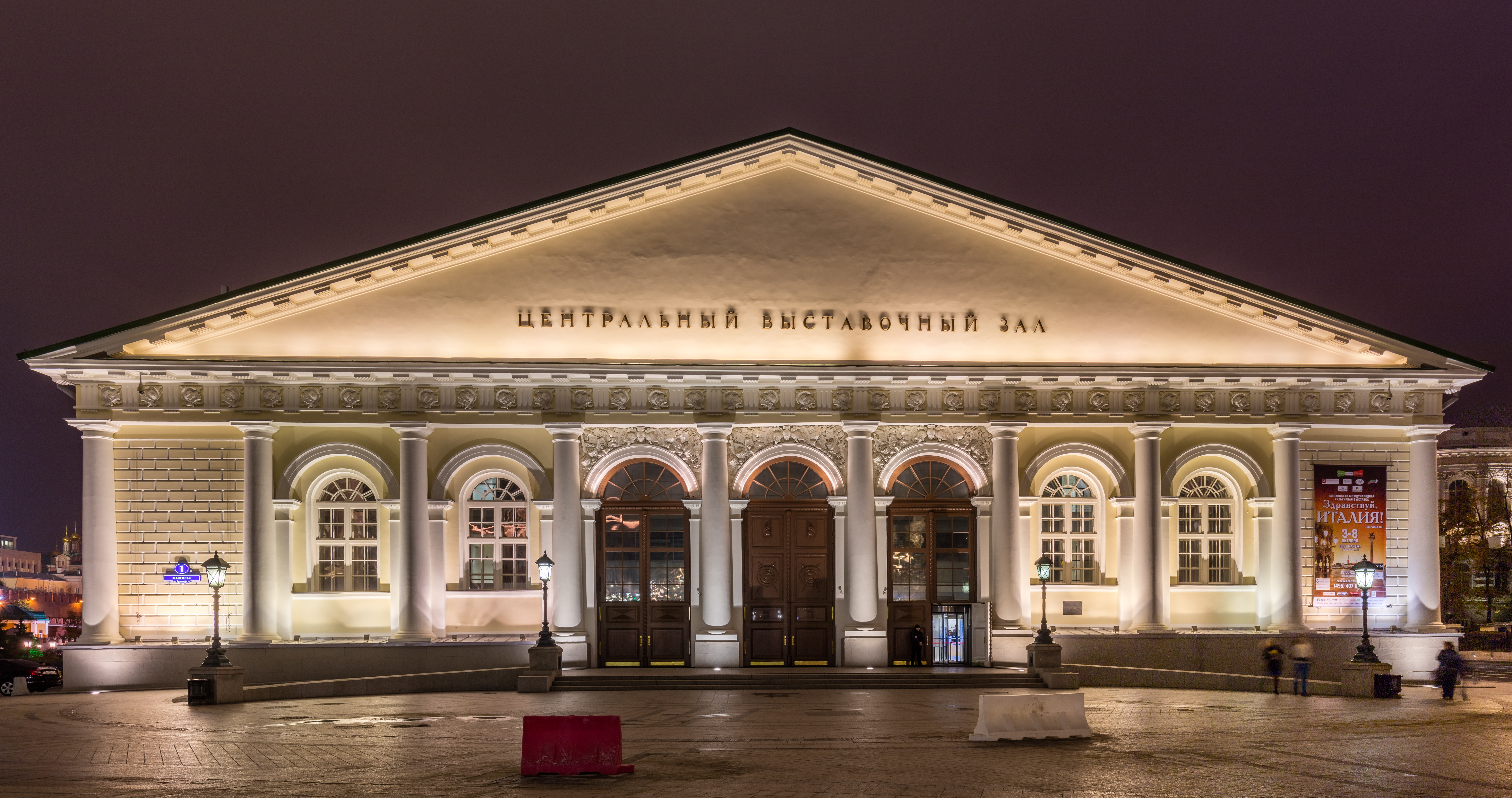 Manege, Moscow, Russia